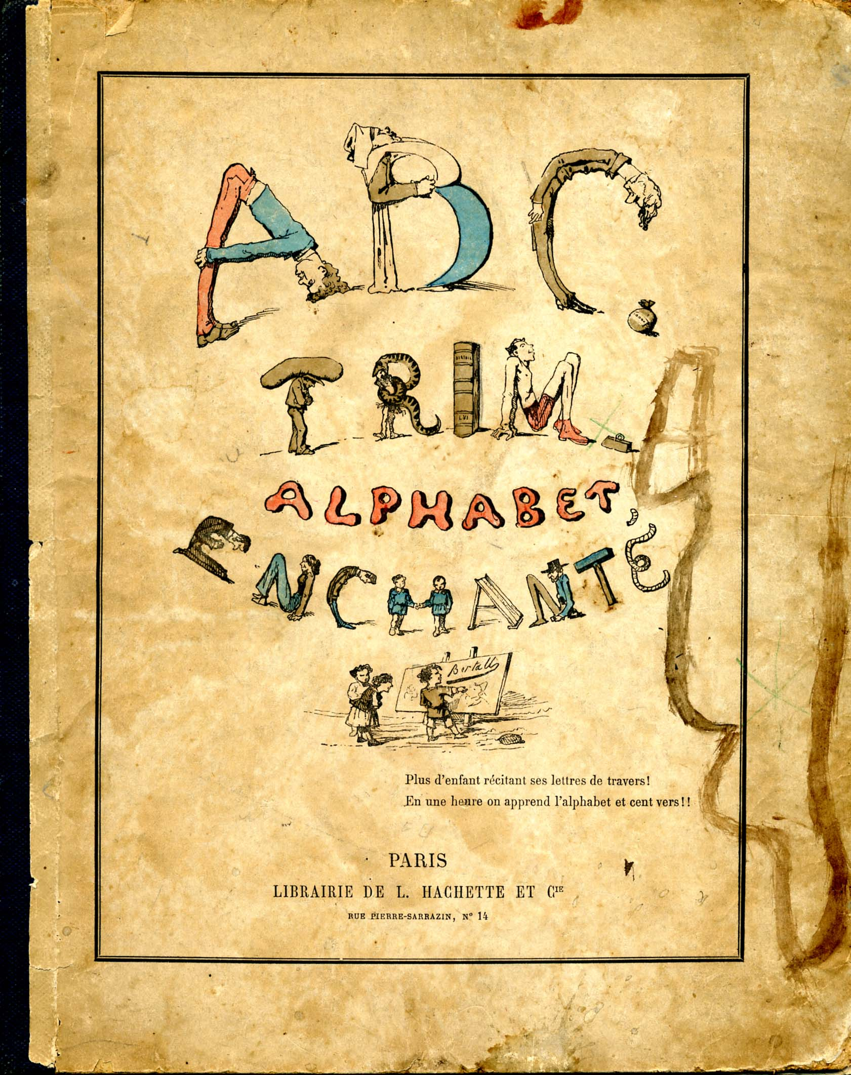 Cover of the book